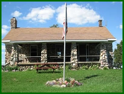 A picture taken of the clubhouse at the Argos Chapter of the Izaak Walton League.